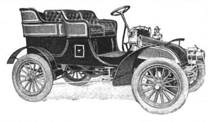 1903 Yale 12 HP Model B Detachable Tonneau; a 2 cylinder car selling for $1750. Image is from an advertisement for the Kirtk Manufacturing company's "Yale" car. From the Google Books archive: Title McClure's magazine ..., Volume 20 Publisher S. S. McClure, Limited, 1903